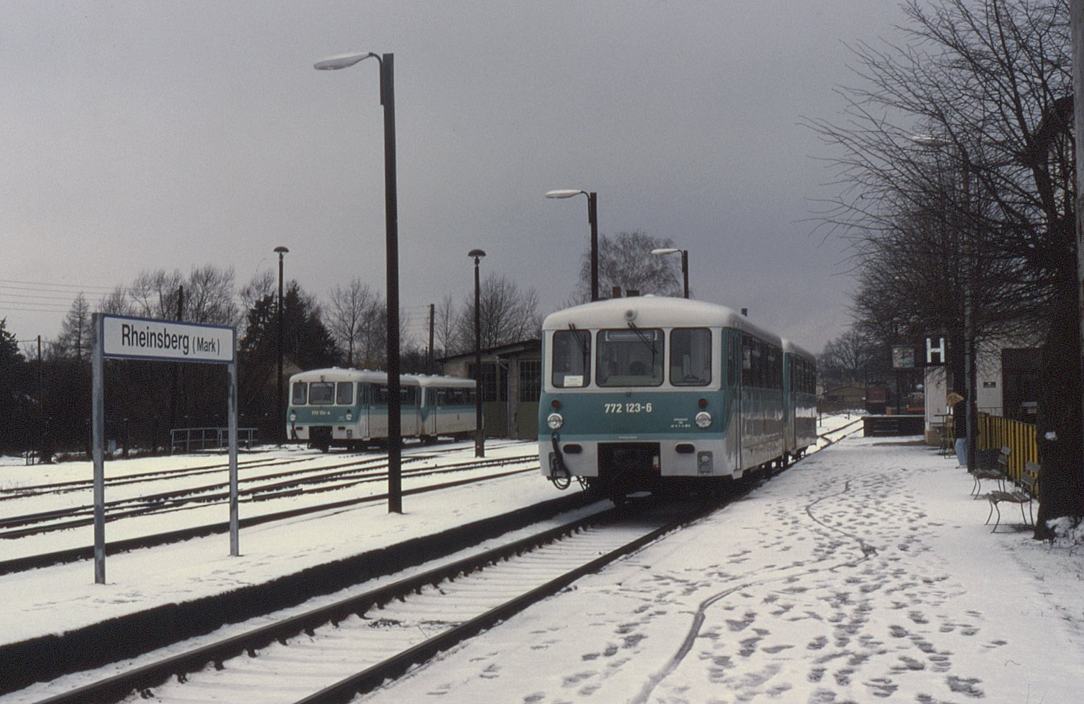 A taxi to catch a pig taxi! Cold, wintery conditions were never enough to put myself off trips to the former East Germany in an effort to visit as many lines as possible. In fact on this visit, myself and Adrian Nicholls (Marra Man) took a taxi from Fürstenberg (Havel) to reach this dead end branch terminal. By then many of the remaining class 772 Ferkletaxe ("Pig Taxis") had been repainted in DB turquoise and while "regional" livery. Seen here on 28 January 1995 is 772.123 (with trailer 972.723 behind) forming train 4785, 12:22 Rheinsberg (Mark) to Herzberg (Mark).